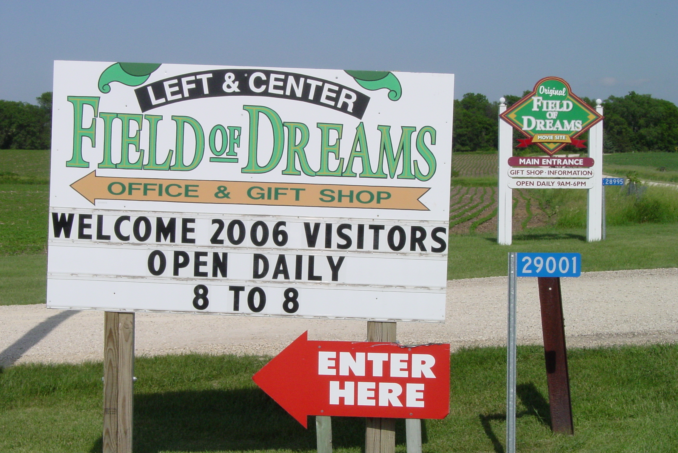 Two signs mark the entrances to the Field of Dreams.